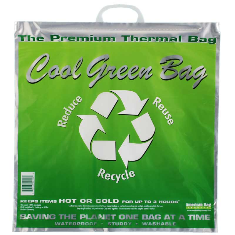 American Bag Company - Cool Green Premium Thermal Bag, Large (20" x 20" x 7")